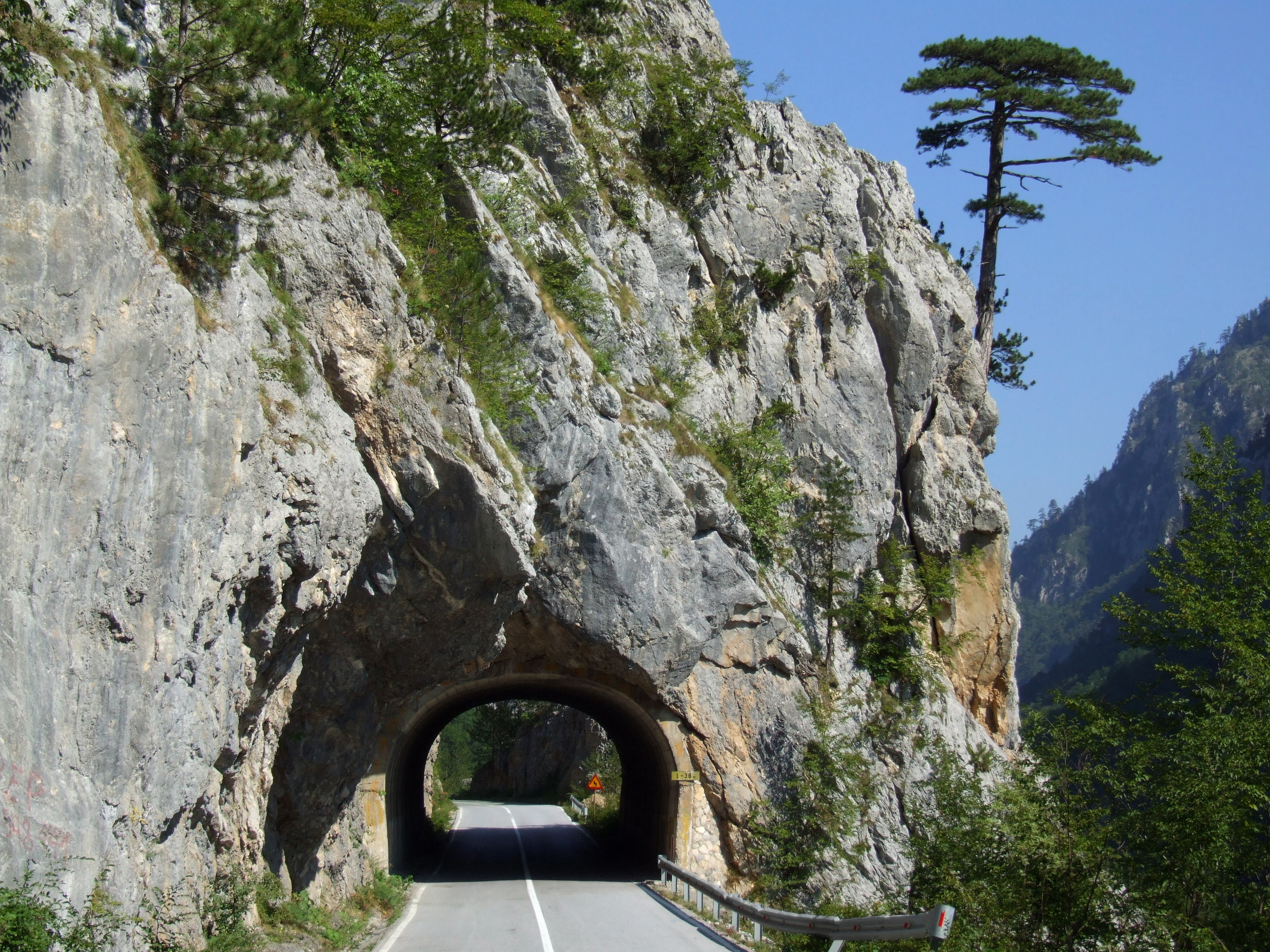 Road nr 4 in Montenegro, Tara canyon